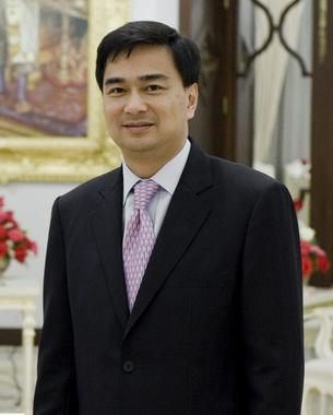 ผู้แทนพระองค์ในสมเด็จพระเจ้าลูกเธอ เจ้าฟ้าจุฬาภรณ์วลัยลักษณ์ อัครราชกุมารี เข้ามอบของอวยพรปีใหม่ ณ ห้องสีงาช้าง 11 มกราคม2553 (The Official Site of The Prime Minister of Thailand Photo by พีรพัฒน์ วิมลรังครัตน์)